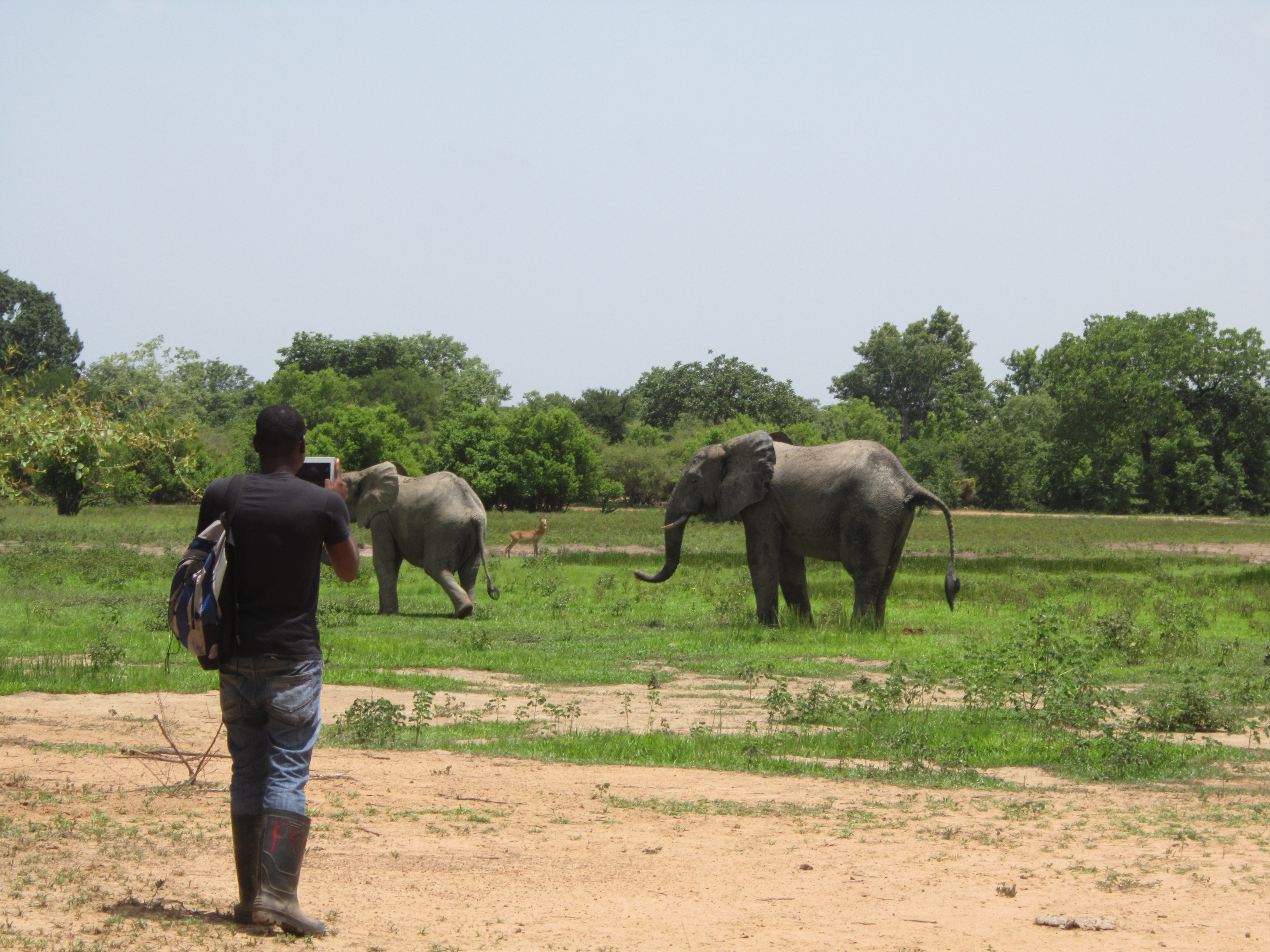 This shot was taken at the Mole National park. These park is opened all year round and visitors can actually get this close to the wildlife to take shots. caution must be taken however.